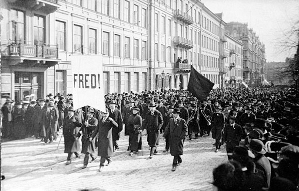 1 may demonstration in Stockholm 1917. Unknown author. Taken from